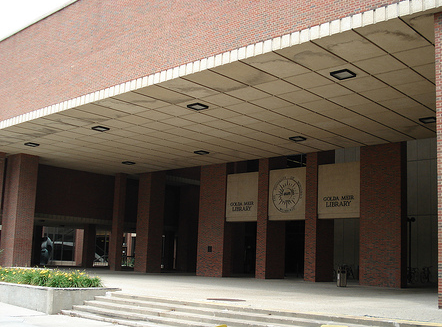 Golda Meir Libary Main Entrace at the University of Wisconsin-Milwaukee (USA)